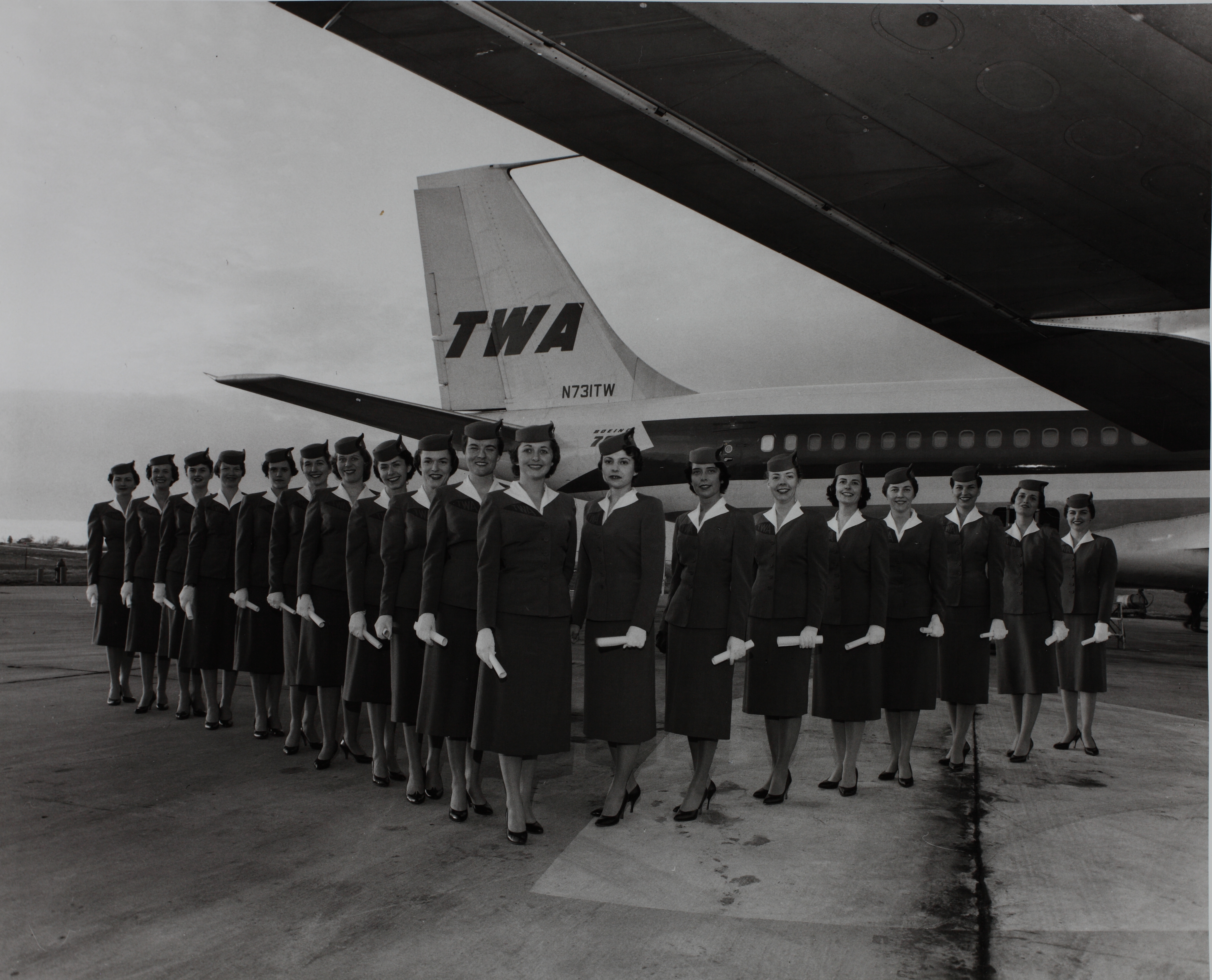 Title: Stewardess in front of plane Catalog #: WOF_00109 Item Location: Women of Flight Box 3 Collection: Women of Flight Special Collection Tags: Women of Flight Photo, Stewardess in front of plane Repository: San Diego Air and Space Museum Archive